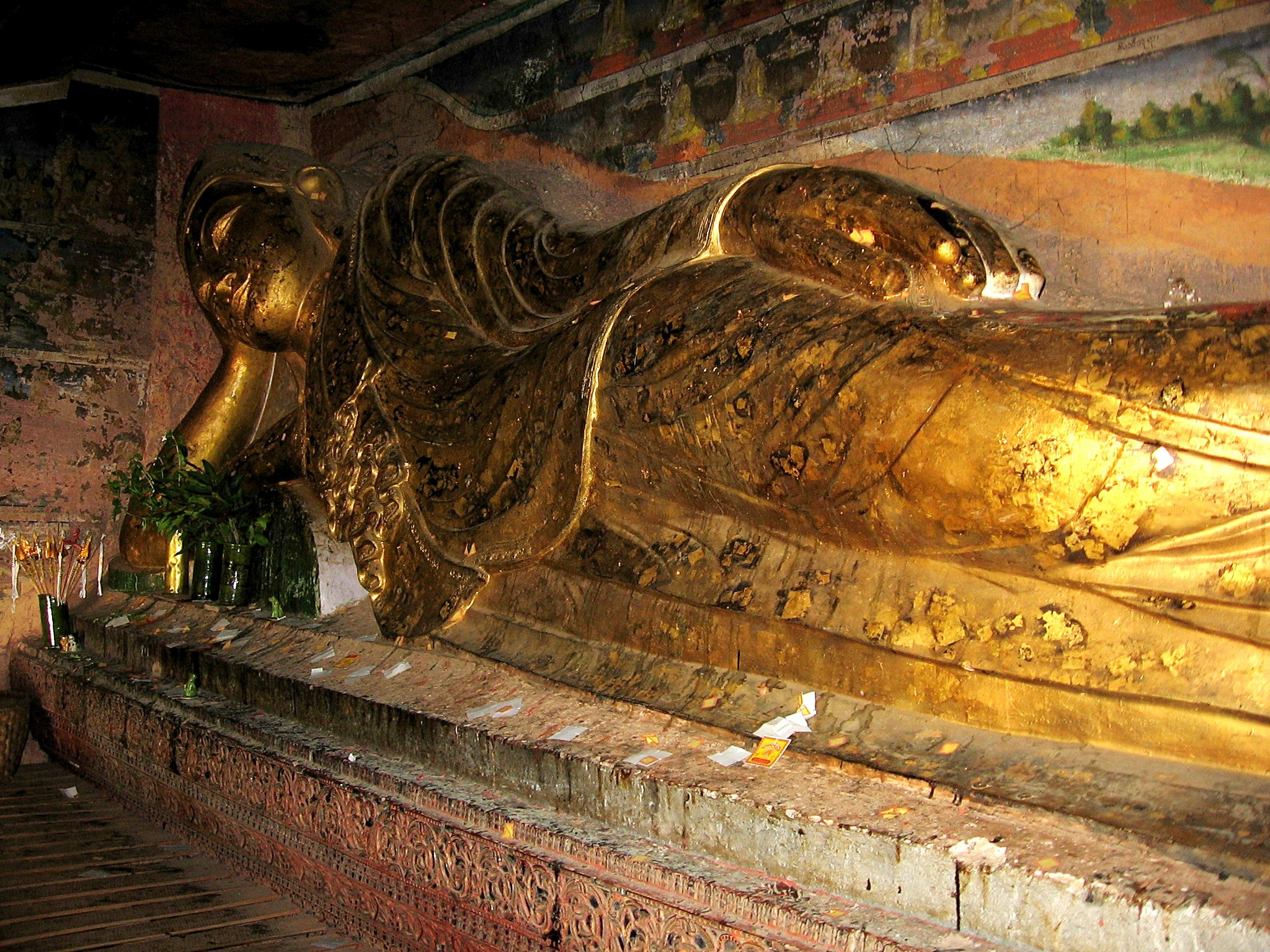 Hpo Win caves, near Monywa, Myanmar.